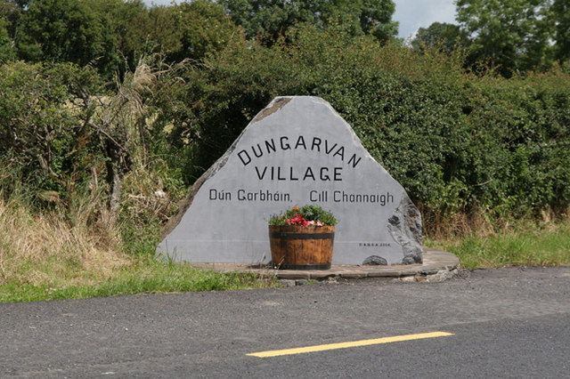 Dungarvan village welcome sign Entering Dungarvan village, Co.Kilkenny